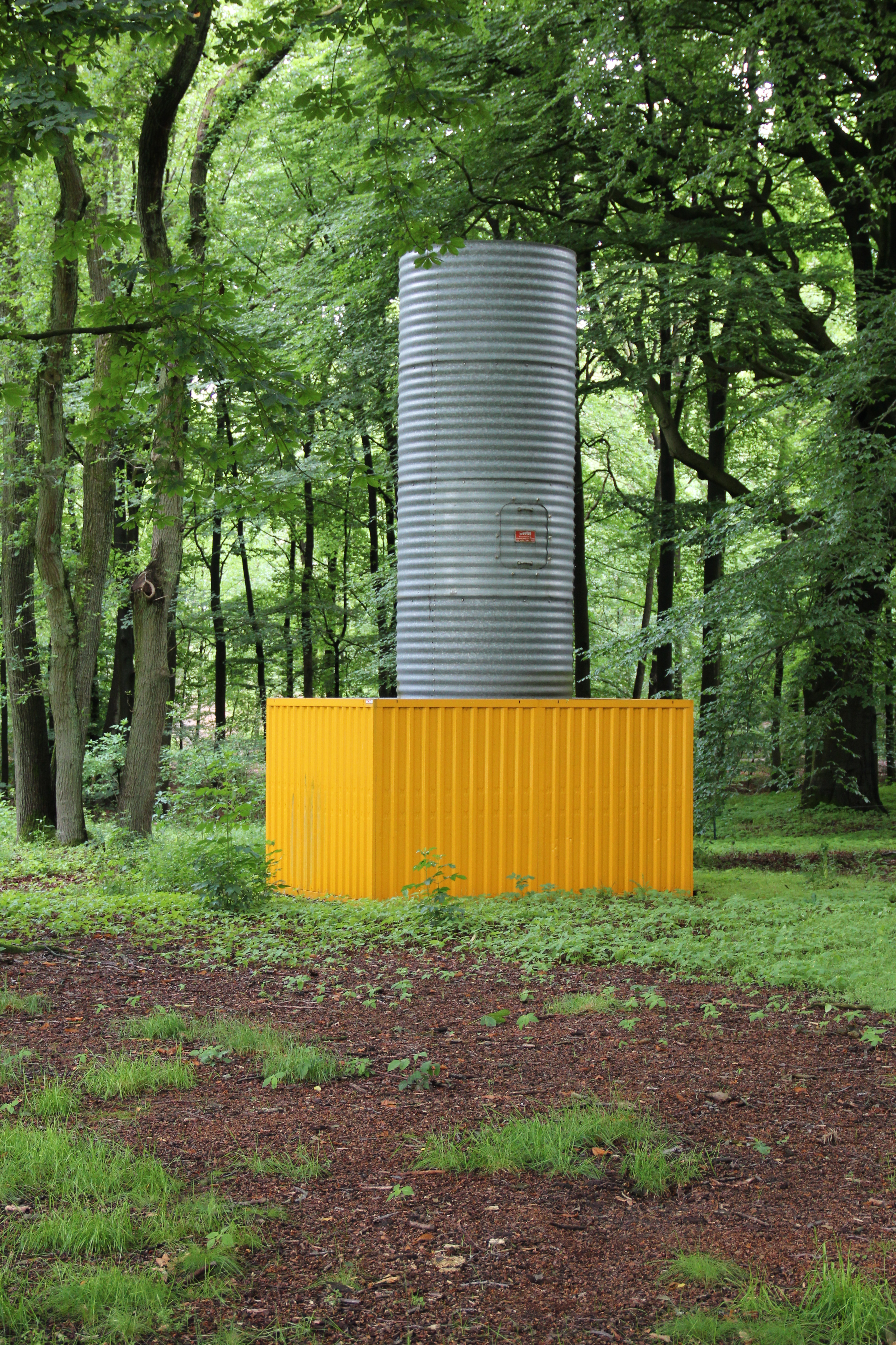 Artwork Privé sur mobi by Bertrand Lavier at Kröller-Müller Museum the in the Hoge Veluwe National Park